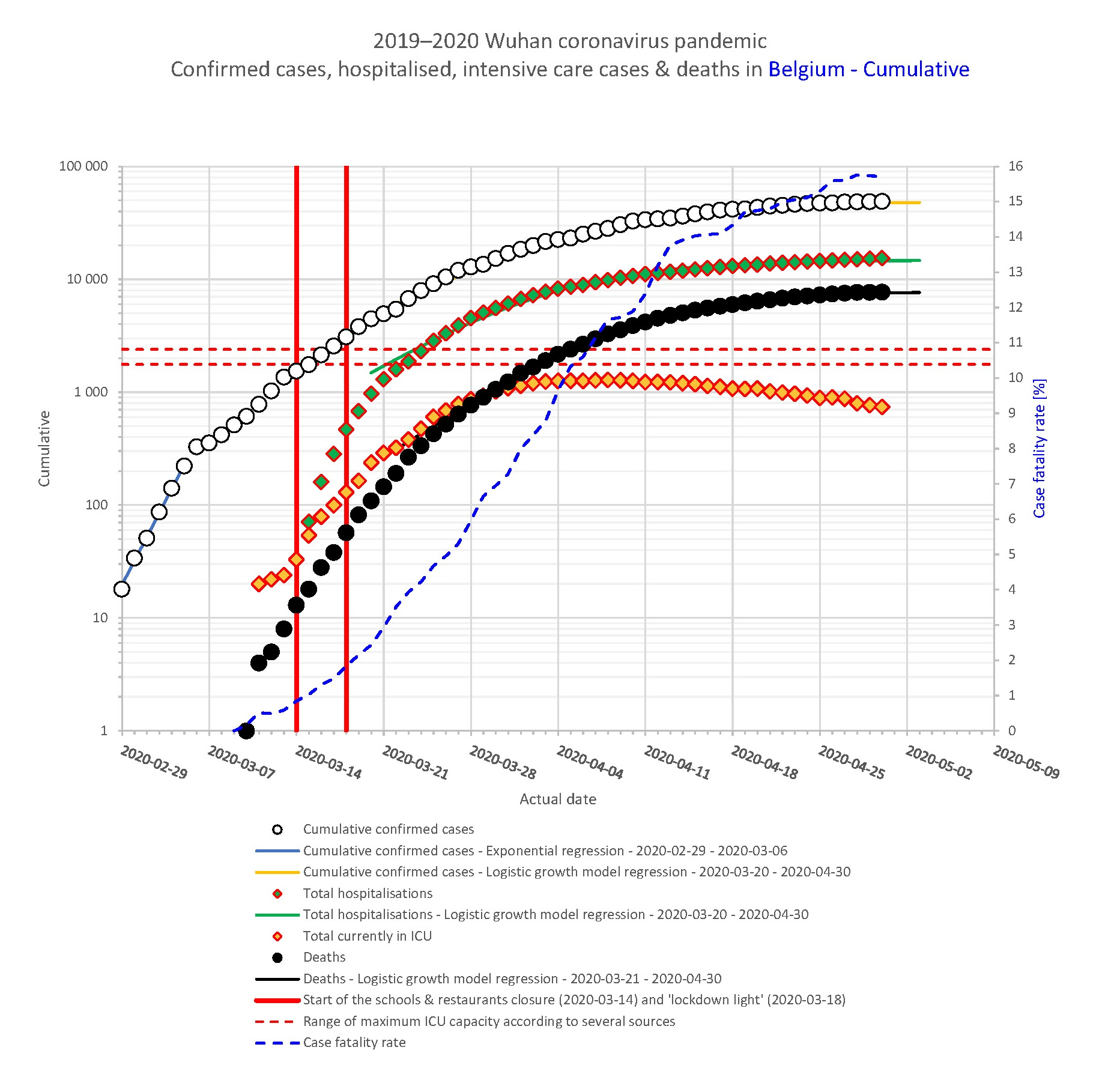 Most recent data on the SARS-CoV-2 pandemic in Belgium - Represented as a semi-logarithmic graph